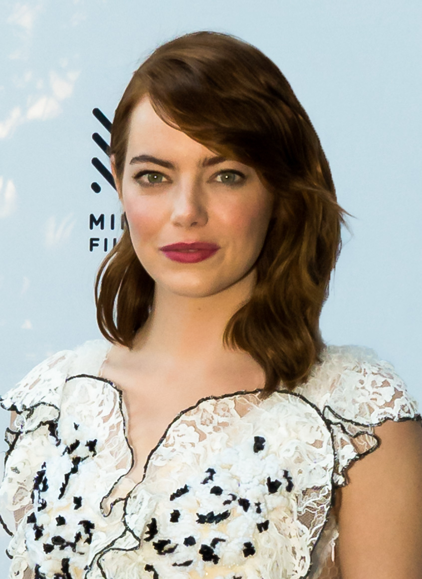 Emma Stone at the 39th Mill Valley Film Festival